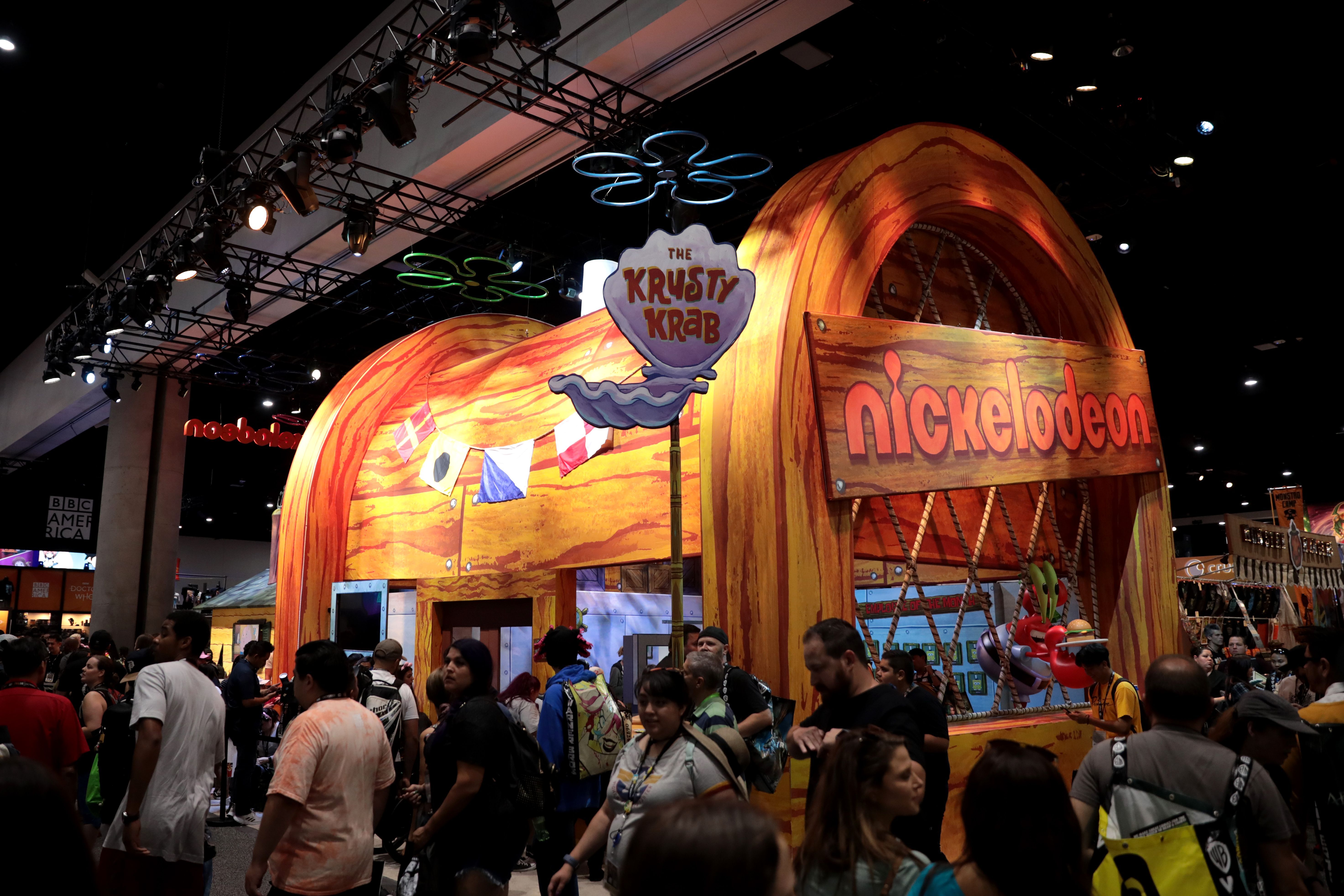 The Krusty Krab at the 2019 San Diego Comic-Con International at the San Diego Convention Center in San Diego, California.